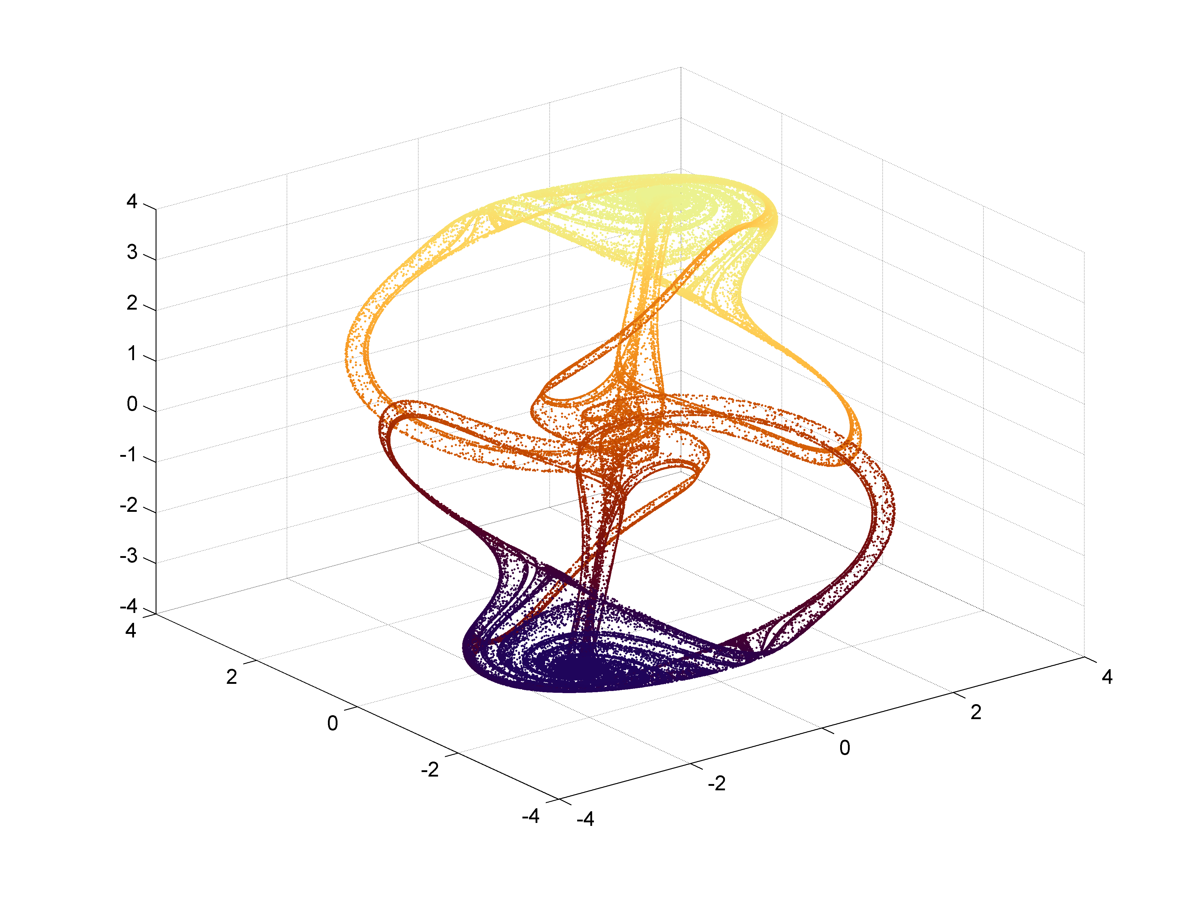 Thomas' cyclically symmetric attractor, a strange attractor with equation x'=sin(y)-bx, y'=sin(z)-by, z'=sin(x)-bz. Here b=0.1998. The attractor was first described in: Thomas, R. [1999] “Deterministic chaos seen in terms of feedback circuits: Analysis, synthesis, ‘labyrinth chaos’,” Int. J. Bifurcation and Chaos 9, 1889–1905.